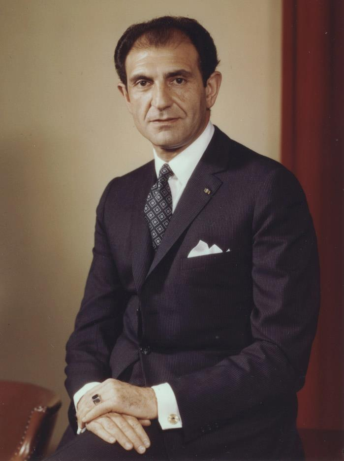 Ambassador of Imperial State of Iran to the USA.